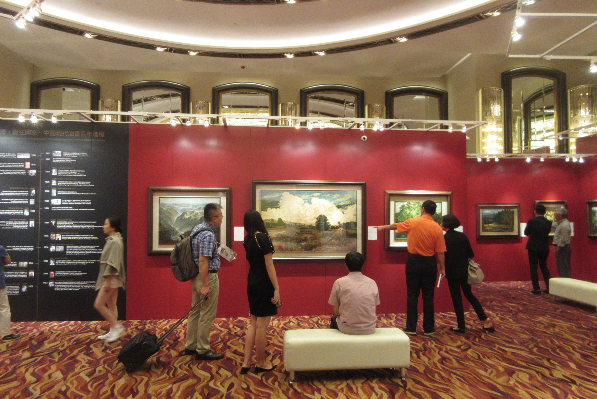 HK Wan Chai North 君悅酒店 Grand Hyatt Hotel 保利集團 Poly Auction preview exhibition interior Oct 2017